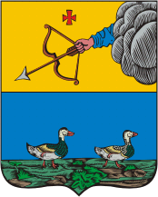 Yaransk (Kirov oblast), coat of arms (1781)